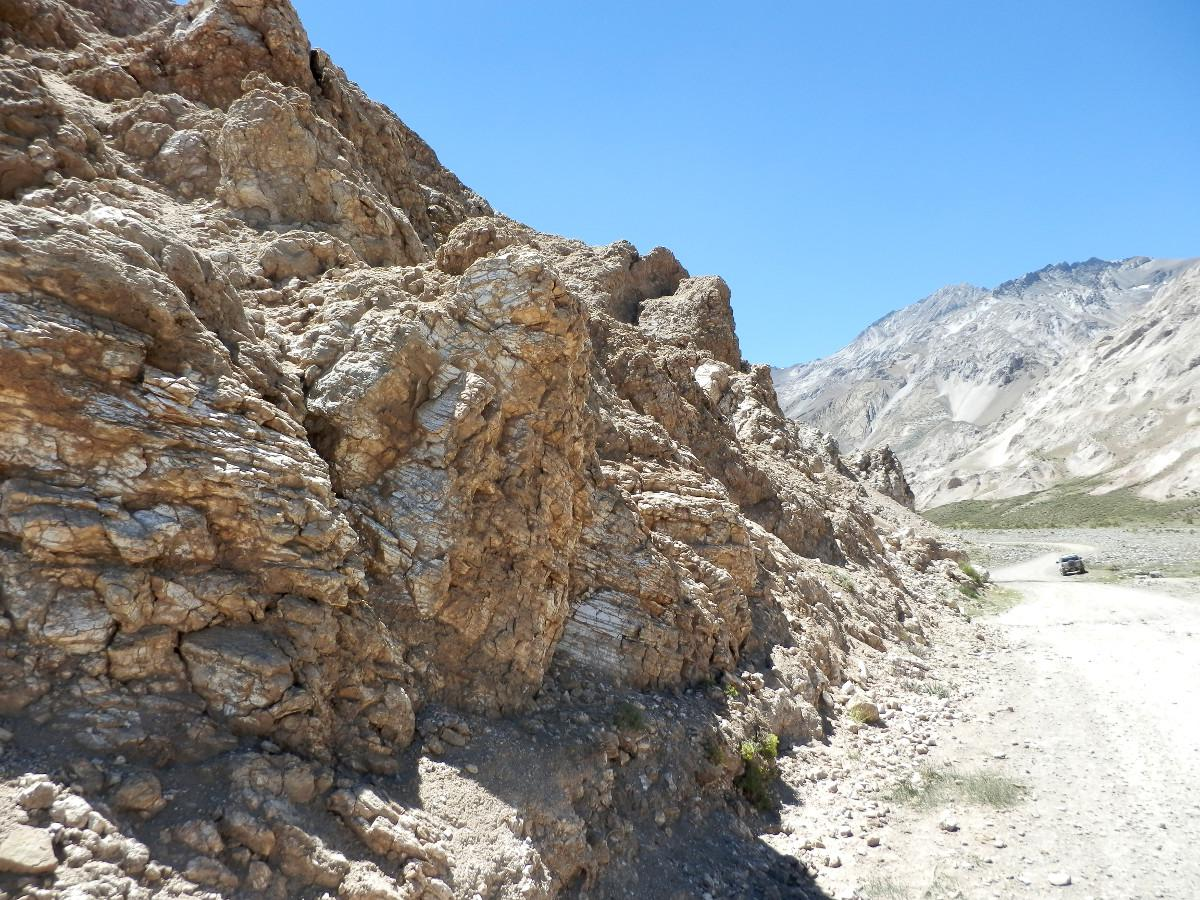 Auquilco fm. (Upper Jurassic) near Las Leñas, Mendoza, Argentina.